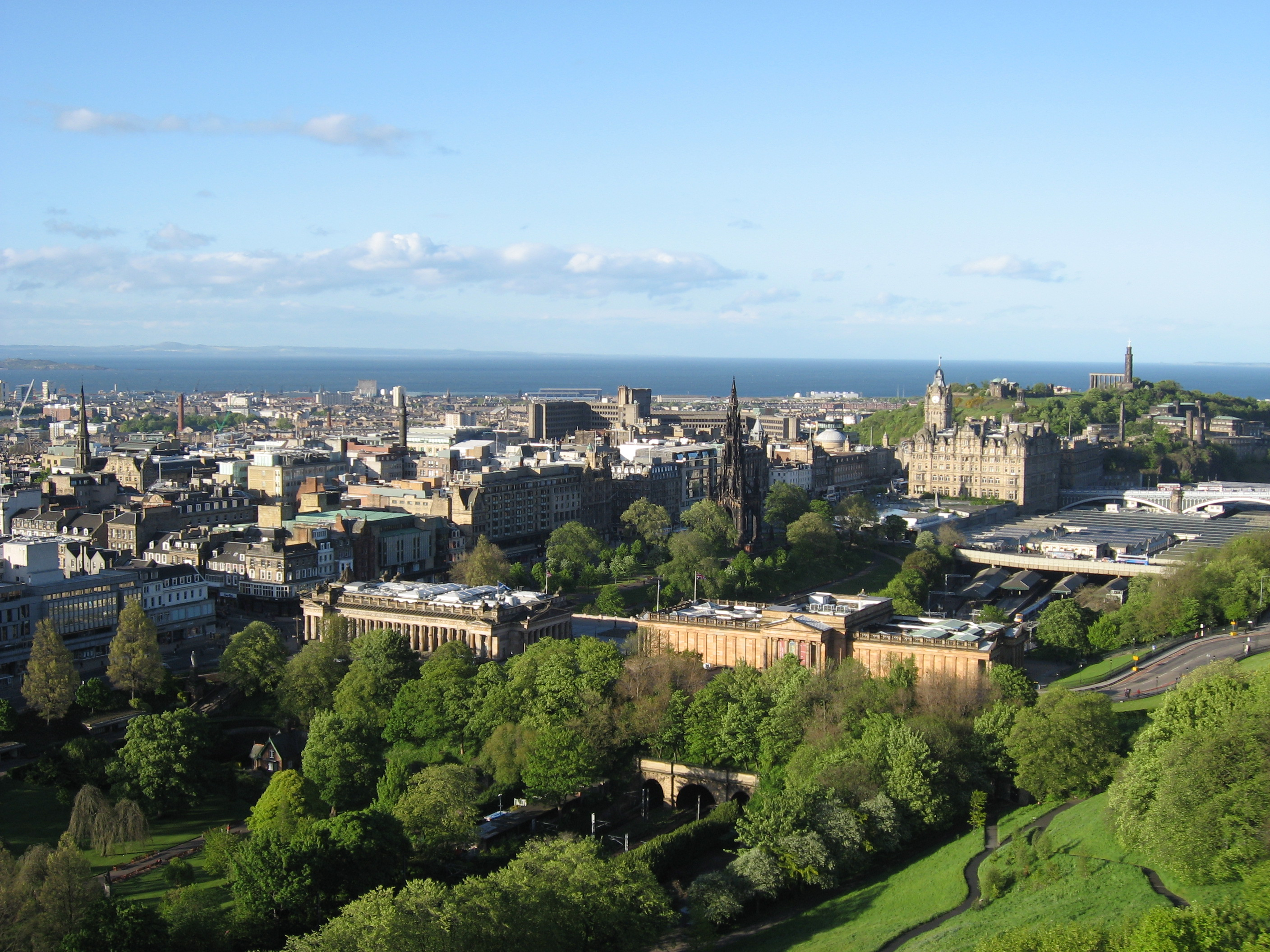 View over Edinburgh from Edinburgh Castle. Photo taken by Alan Ford 2006-05-25.